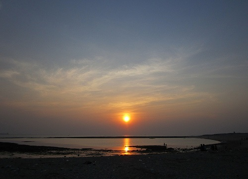 Ancient village of Muldwarka